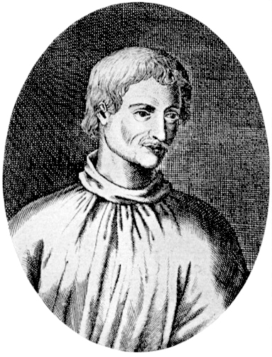 Eighteenth-century engraving of Bruno originally published N.H. Gundling, Neue Bibliothec, oder Nachricht und Urtheile von Neuen Büchern (Frankfurt and Leipzig, 1715) 622, fig. 38